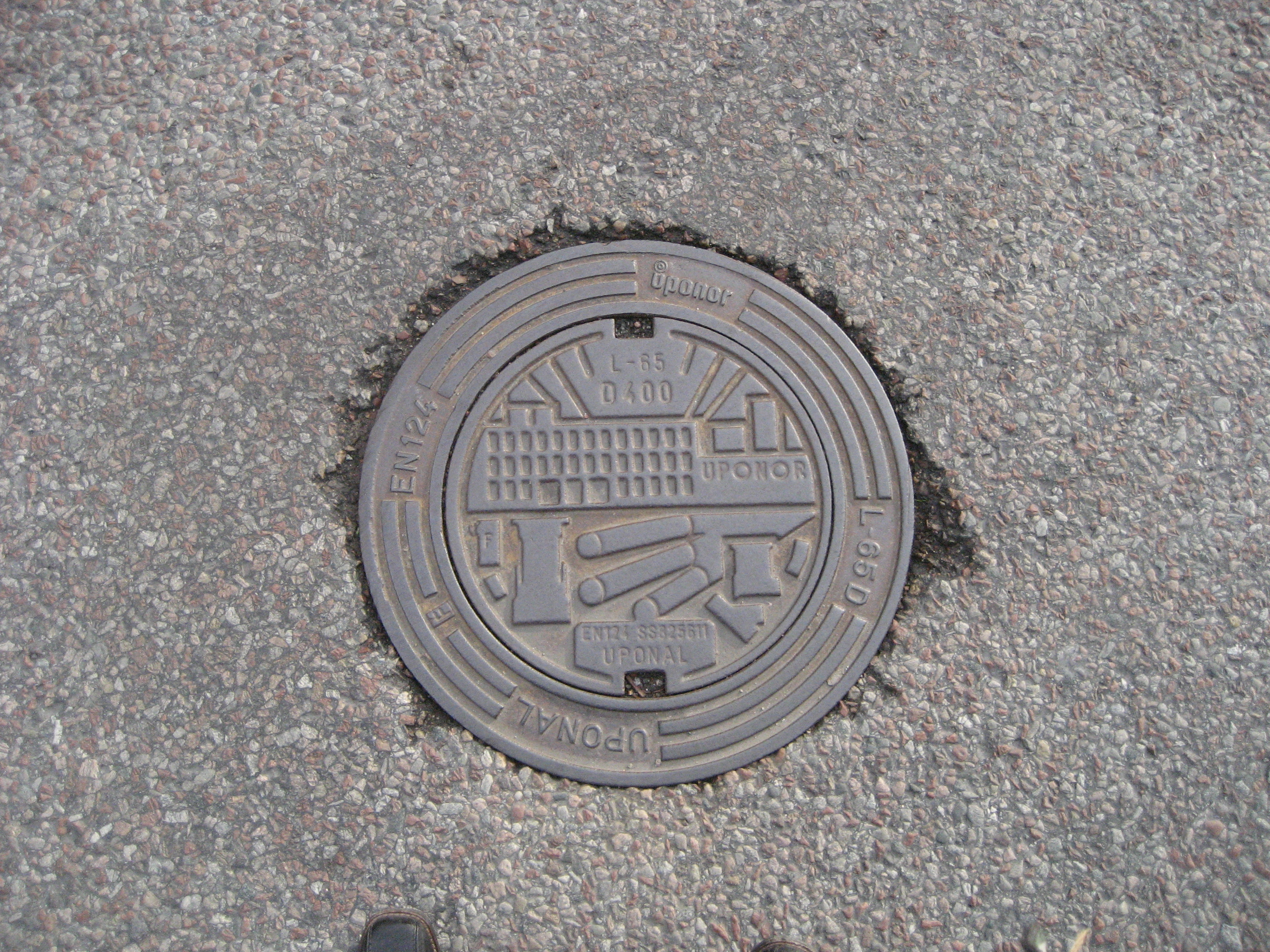 Manhole cover in Uppsala (Sweden). "Uponal"